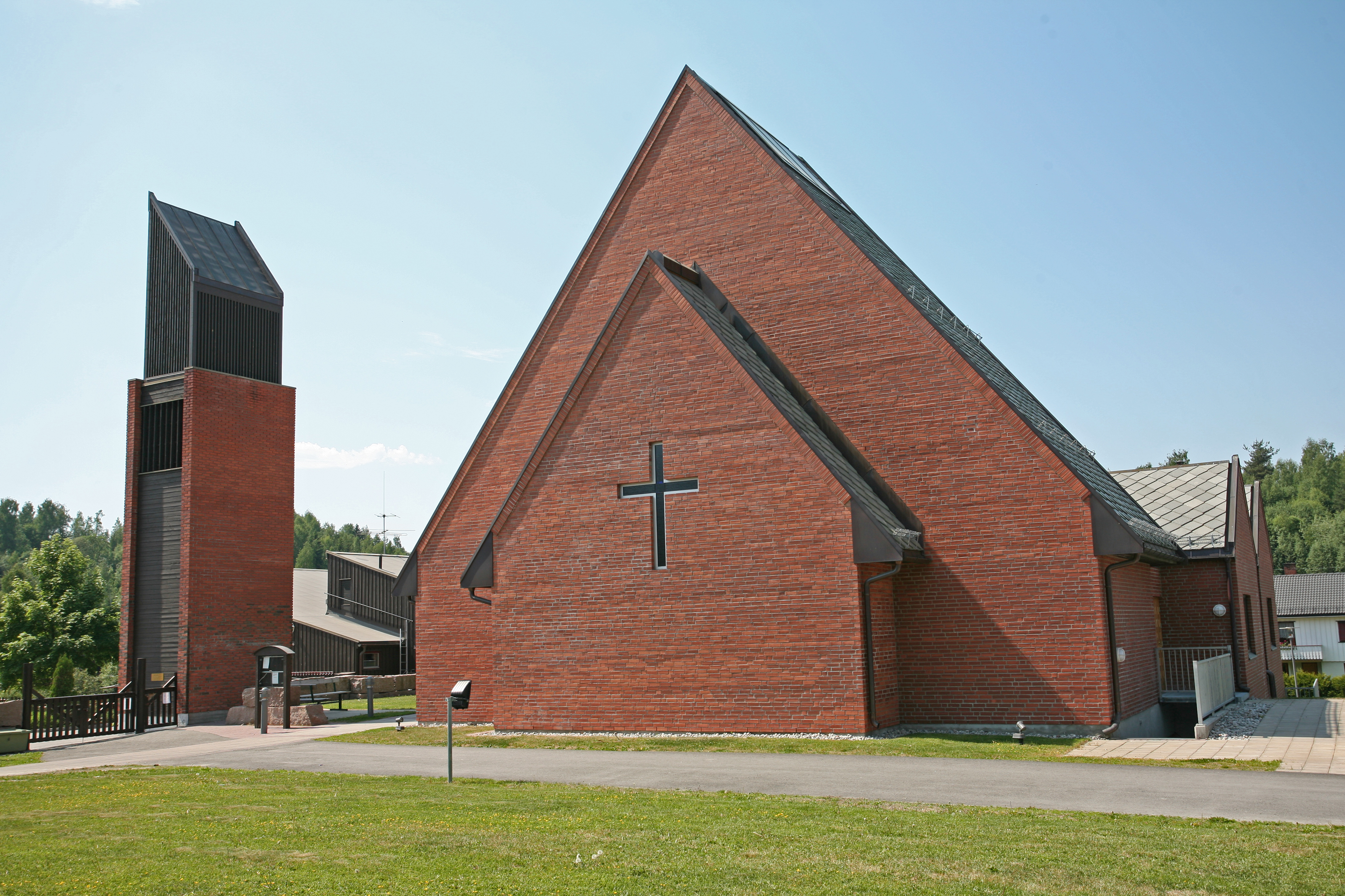 Picture of Ullerål church (Buskerud - Norway)